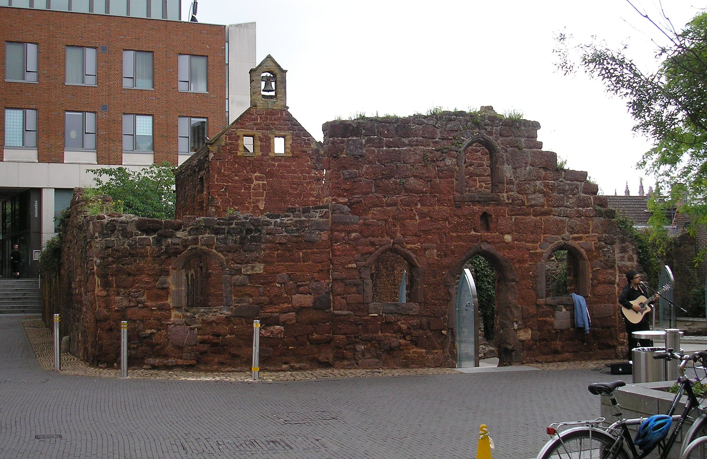 Busking in Exeter on 05 July 2012. It was difficult counting the numbers of fans who showed up for the gig. Camera: Olympus FE-120 6.0 Digital.